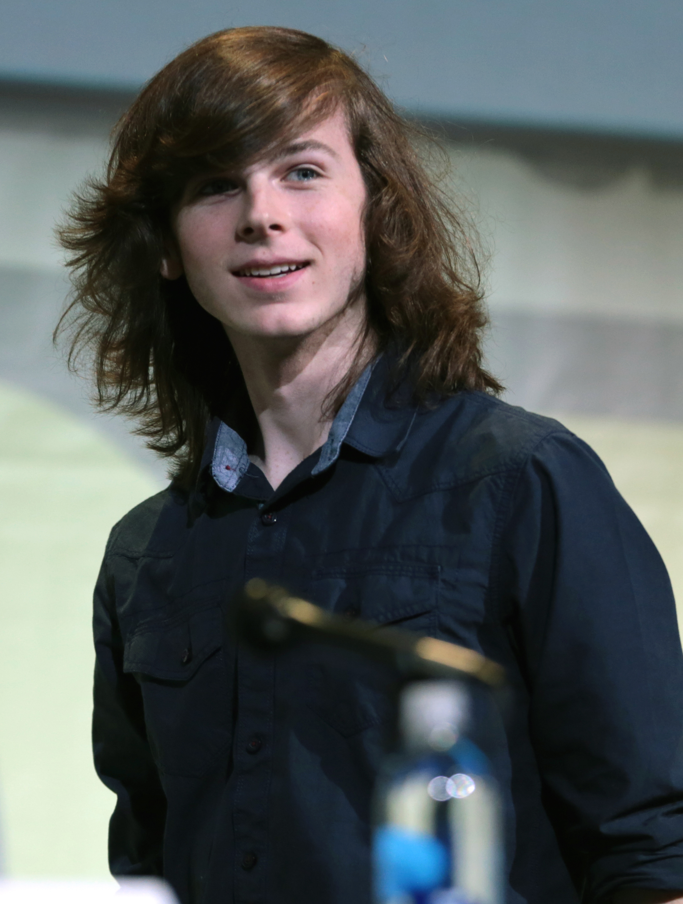 Chandler Riggs speaking at the 2016 San Diego Comic Con International, for "The Walking Dead", at the San Diego Convention Center in San Diego, California.